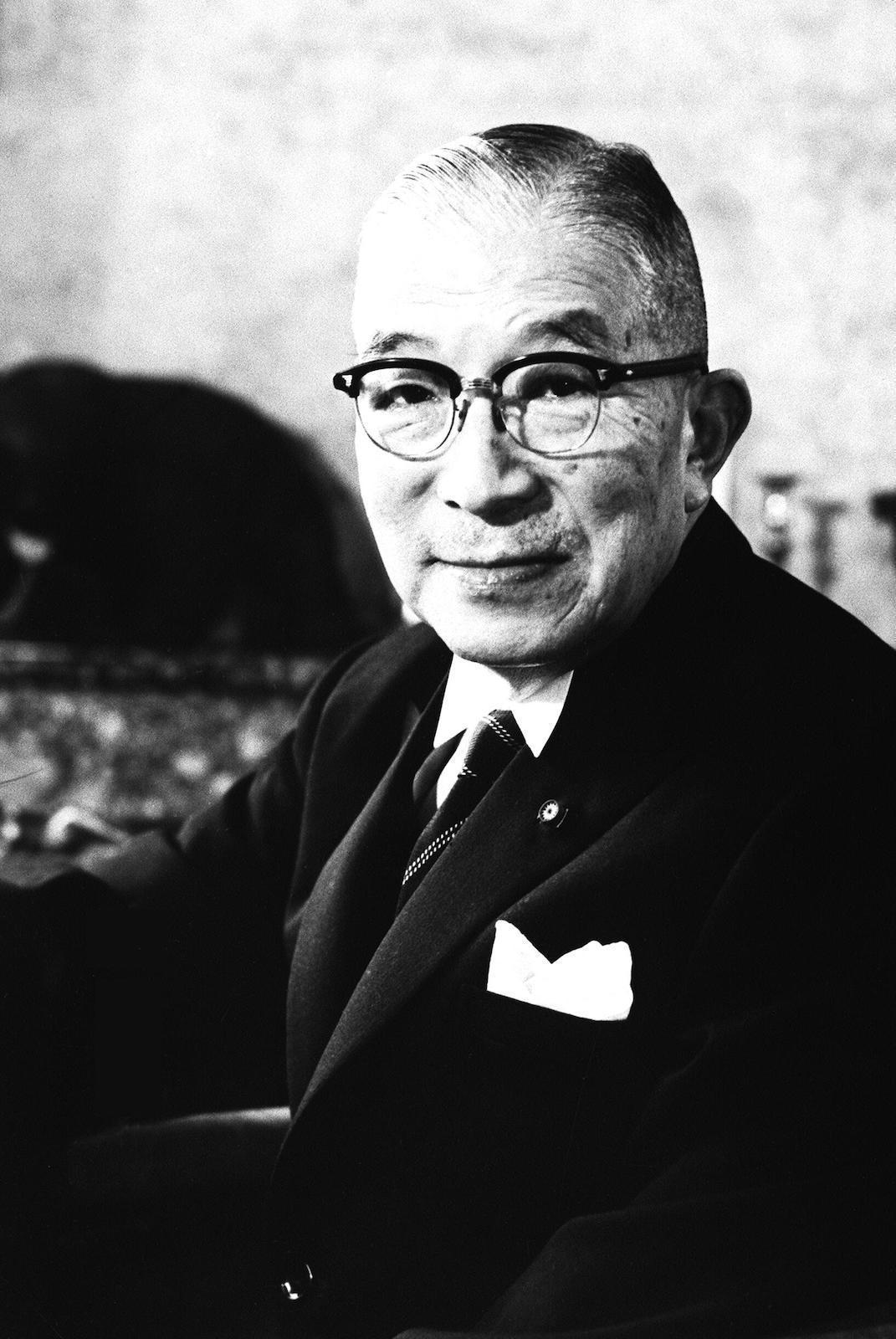 Japanese Prime Minister Ichirō Hatoyama (1883–1959, in office 1954–56)